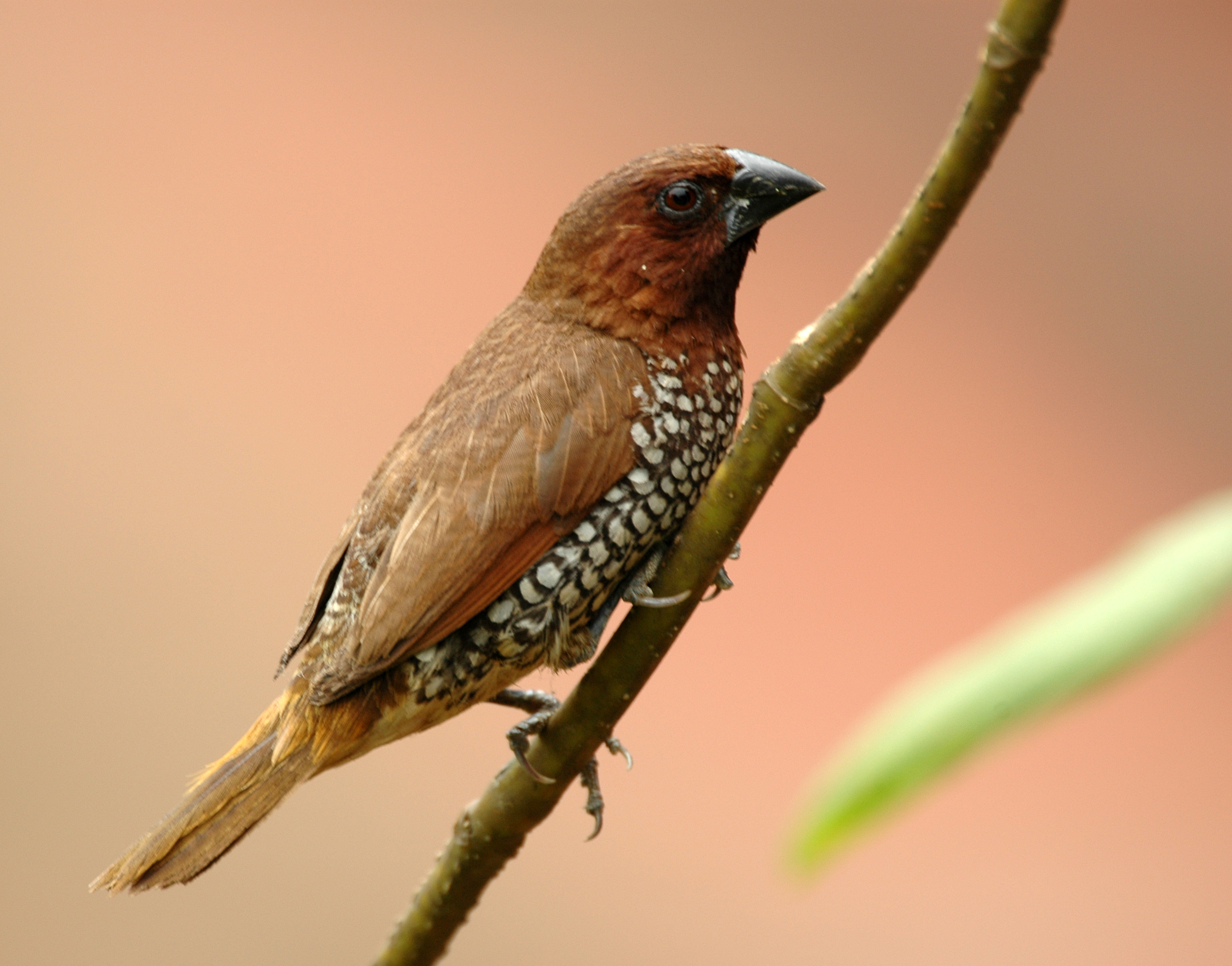 Scaly-breasted munia in Nagarhole National Park